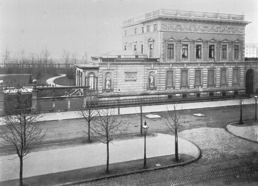 Hohenstaufenring 57 - Palais Oelbermann (um 1895)